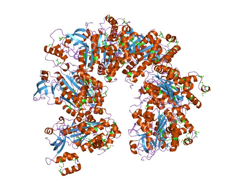 Cartoon representation of the molecular structure of protein registered with 1pv4 code.